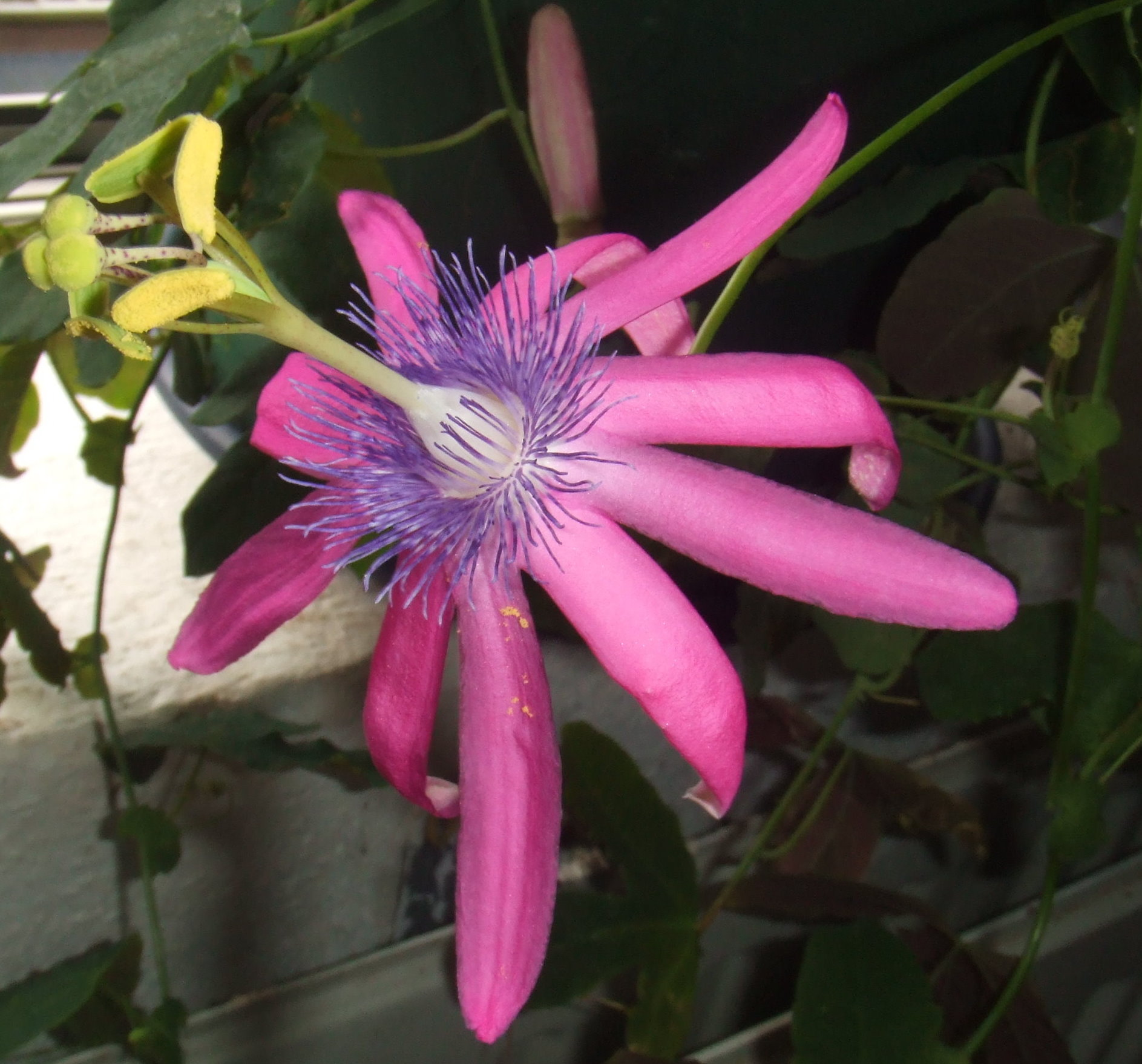 Passiflora kermesina, own collection